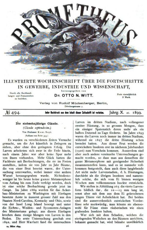 Contribution of Sajó Károly